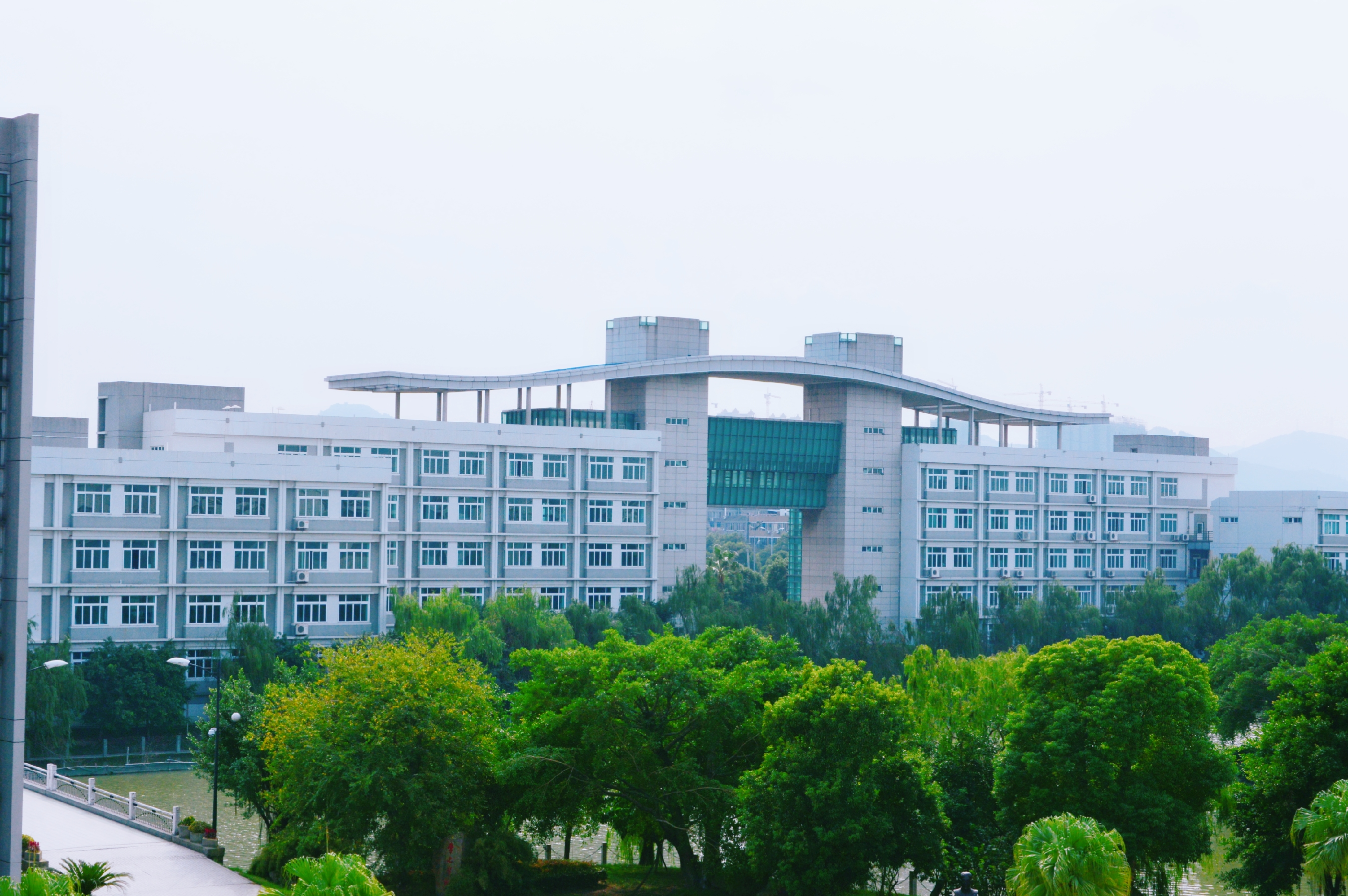 Administration office of the new campus (2002 till now)